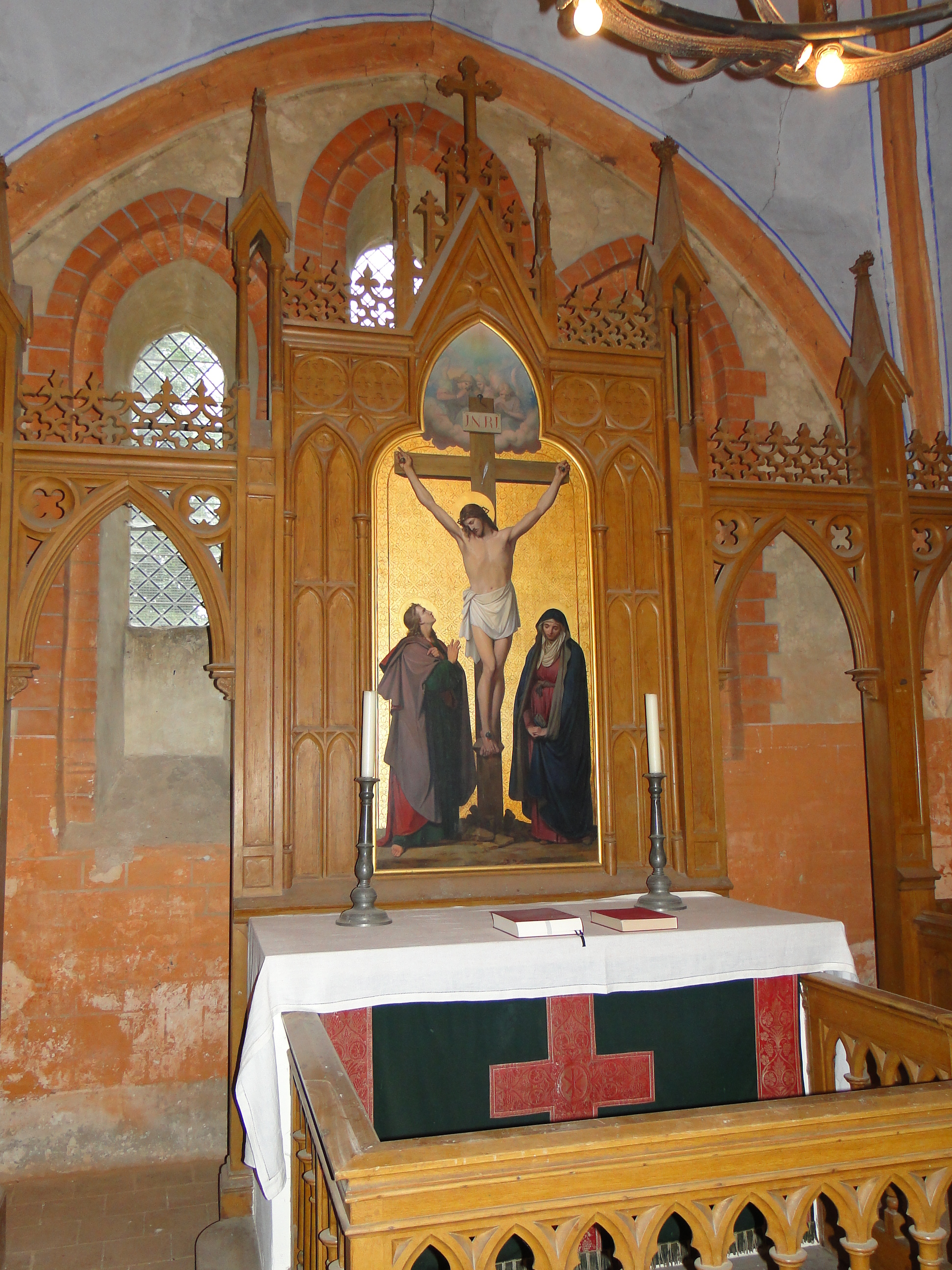 Altar in the church in Woserin, district Parchim, Mecklenburg-Vorpommern, Germany